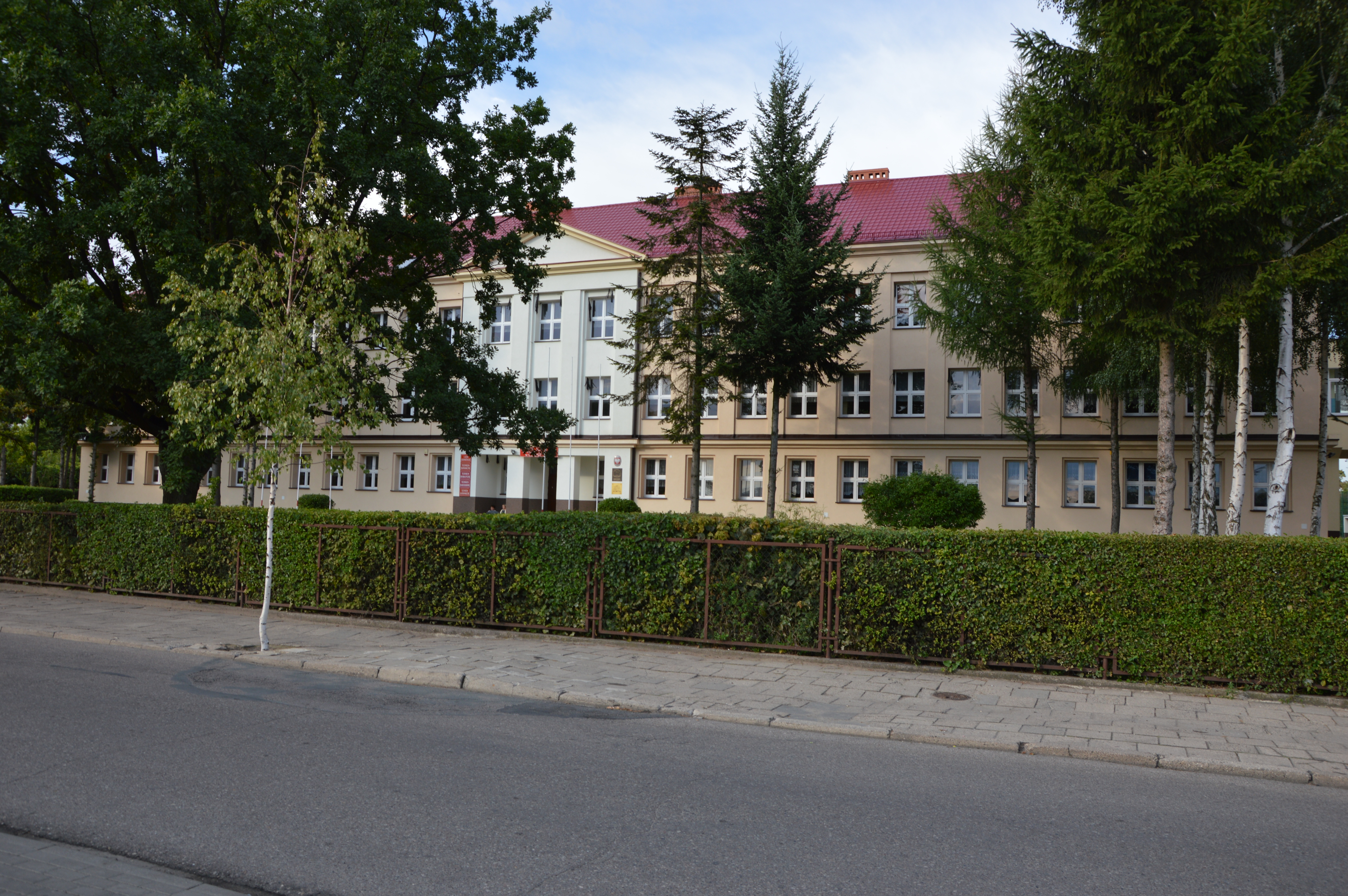 CHOSZCZNO